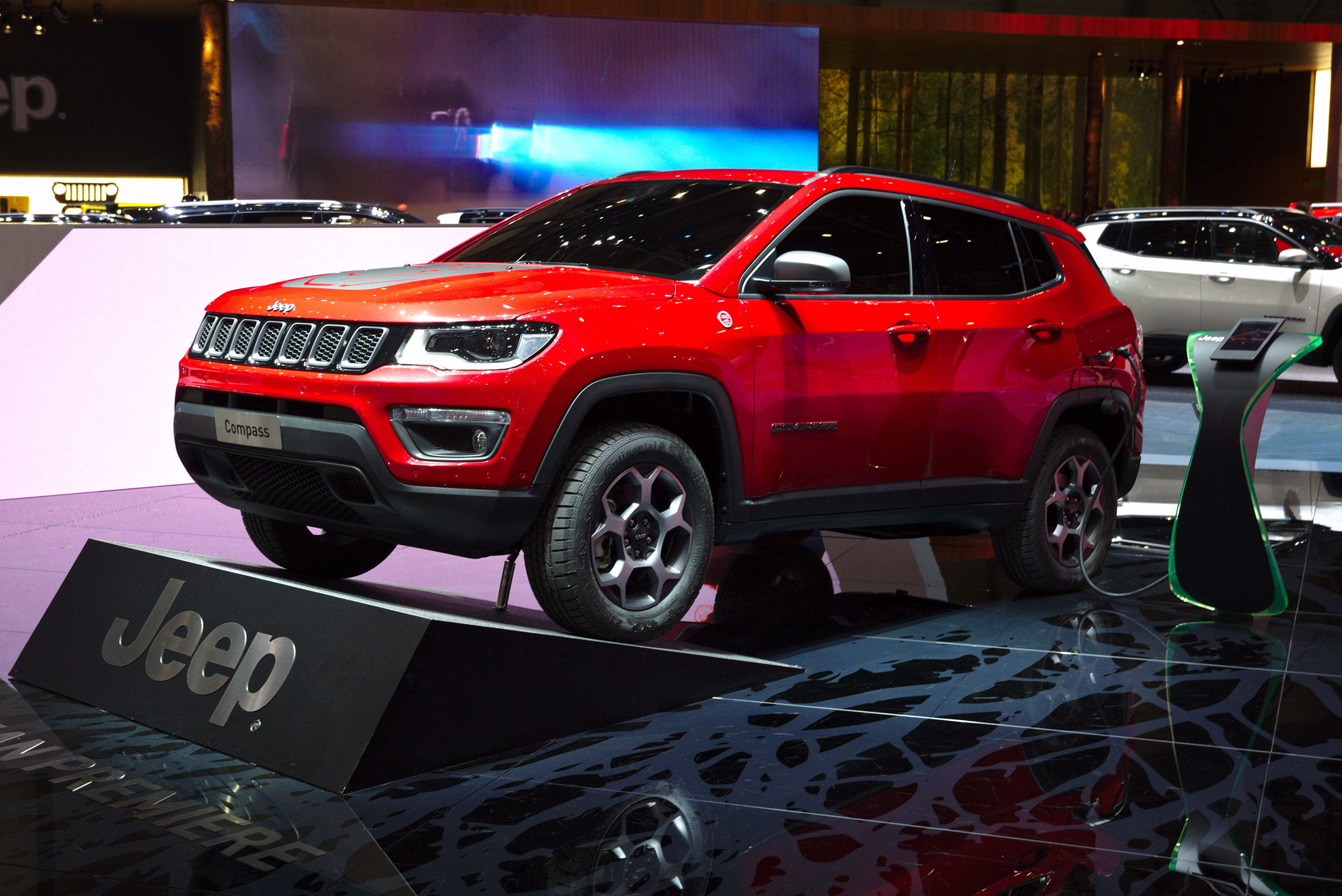 Jeep Compass PHEV at Geneva Motor Show 2019